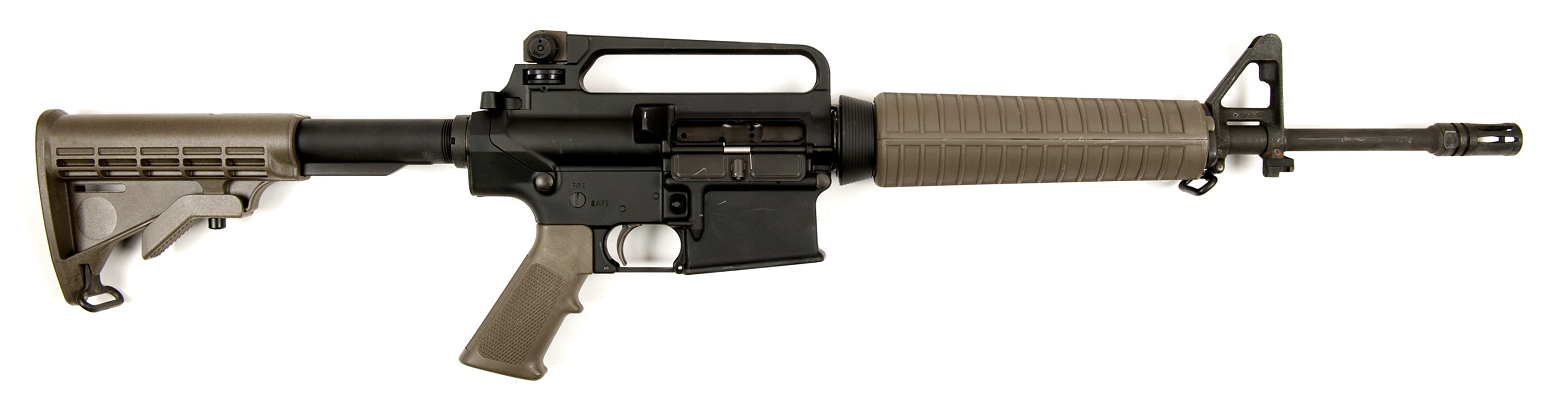 Picture of Armalite AR10: Make: Armalite Model: AR-10 Caliber: 7.62mm